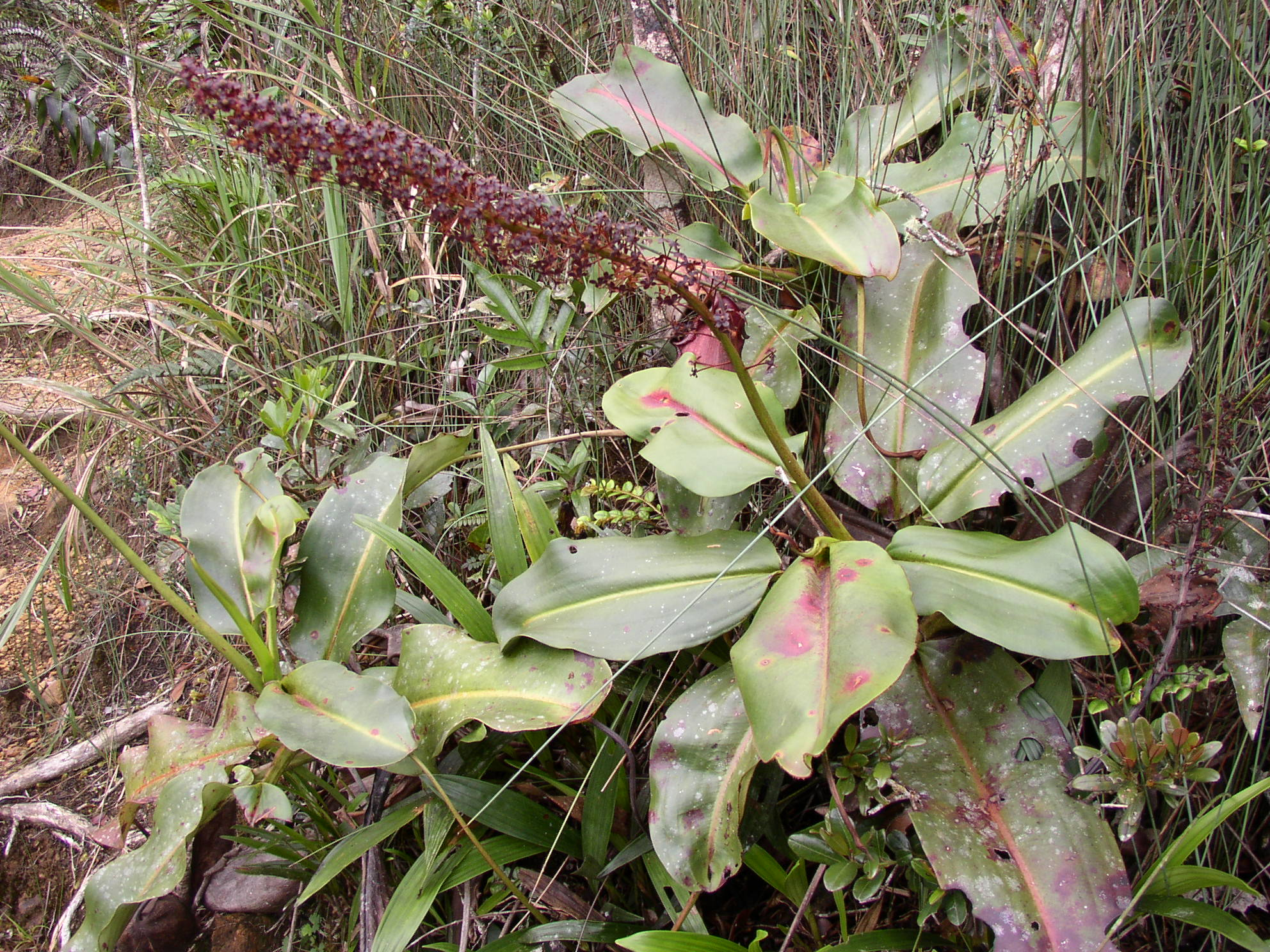 This picture has been moved from This is the original history: 17:15, 21. Jan 2006 . . NepGrower (Talk) . . 1984x1488 (721041 Byte) (Flowering plant of Nepenthes rajah.)